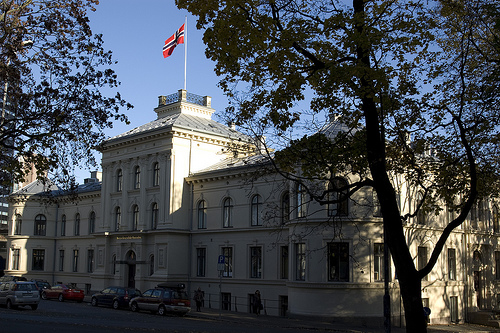 academy.jpg